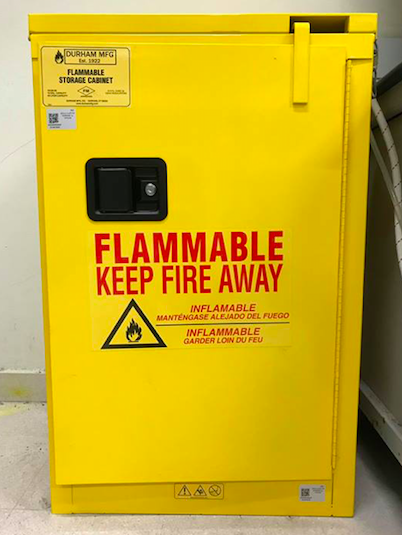 solvent flammable cabinet